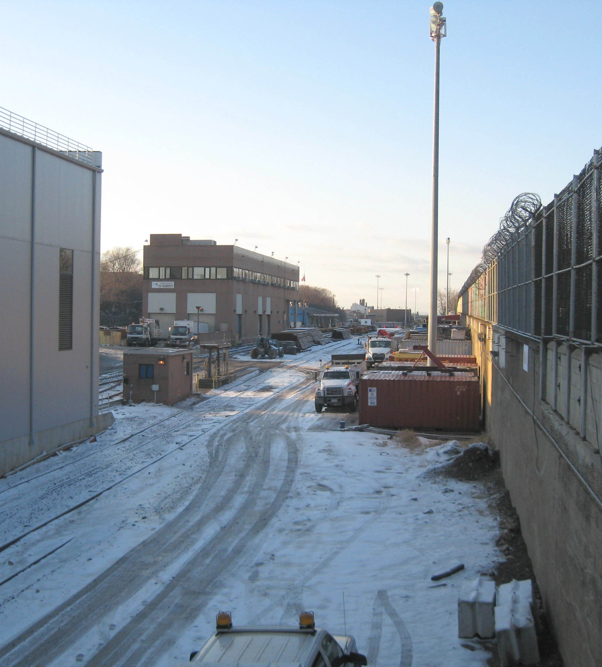 Looking west, late on a sunny afternoon, from 9th Avenue overpass into north side of w:36th–38th Street Yard.